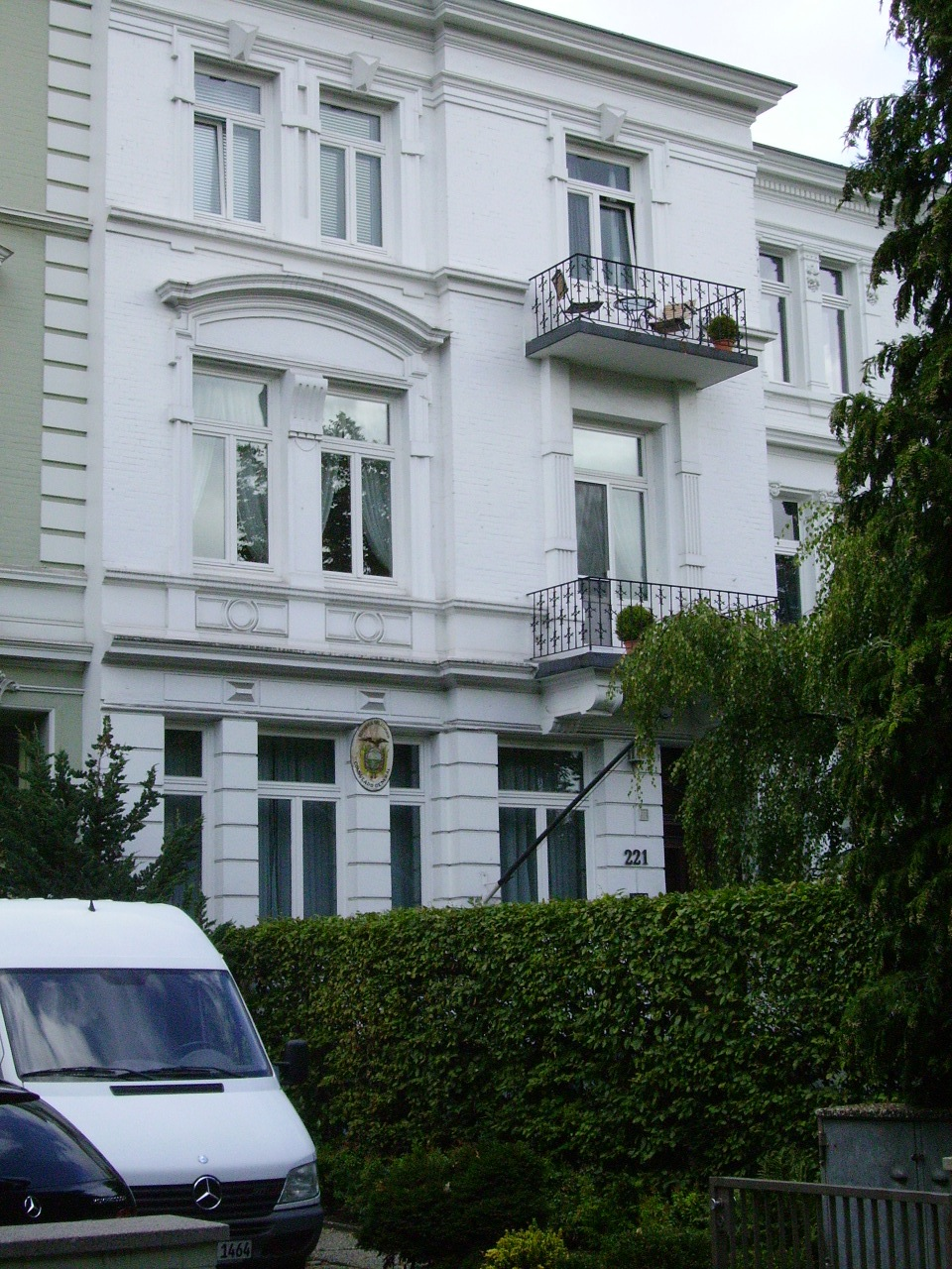 Office building with the consulate-general of Ecuador in Hamburg, Rothenbaumchaussee #221